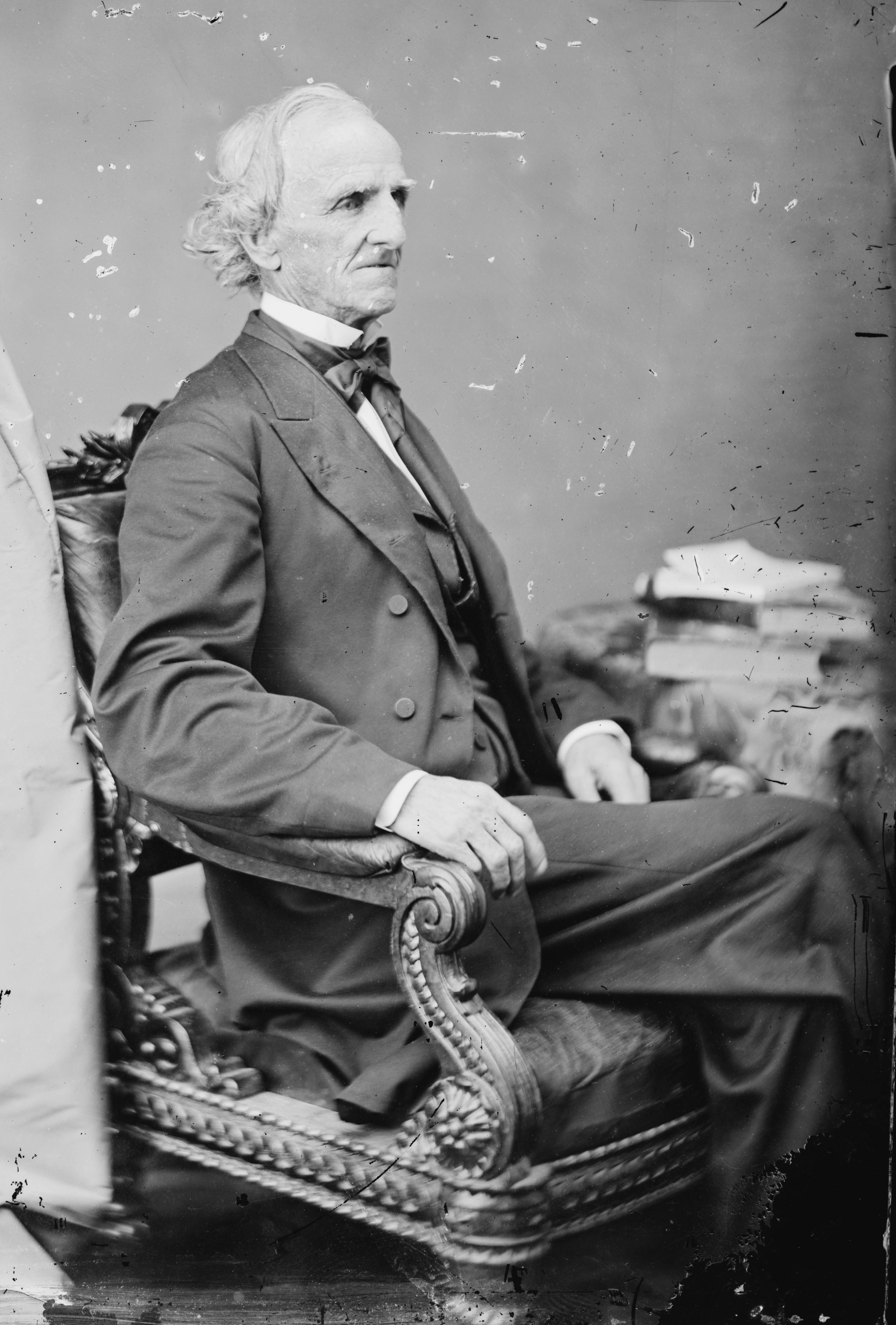 Nathaniel Boyden. Library of Congress description: "Hon. Nathaniel Boyden of N.C."